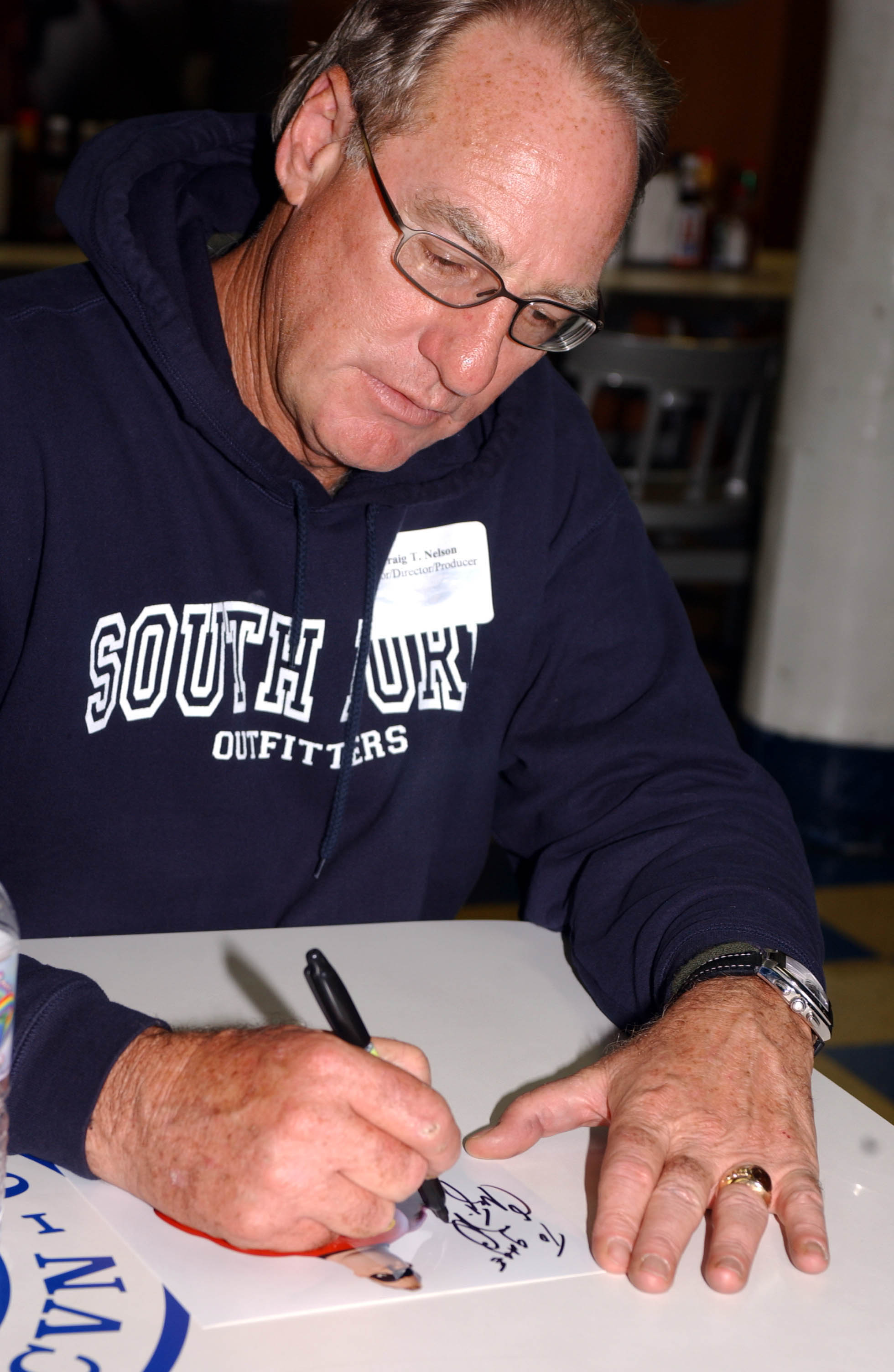 Actor Craig T. Nelson, signs autographs for Sailors stationed aboard the aircraft carrier USS Nimitz (CVN 68). Nelson visited the Nimitz to meet with Sailors and share a special advanced showing of his new animated movie, “The Incredibles”. Nimitz is currently conducting Composite Training Unit Exercise off the coast of southern California. U.S. Navy photo by Photographer’s Mate Airman Elisabeth Ann Saccotelli